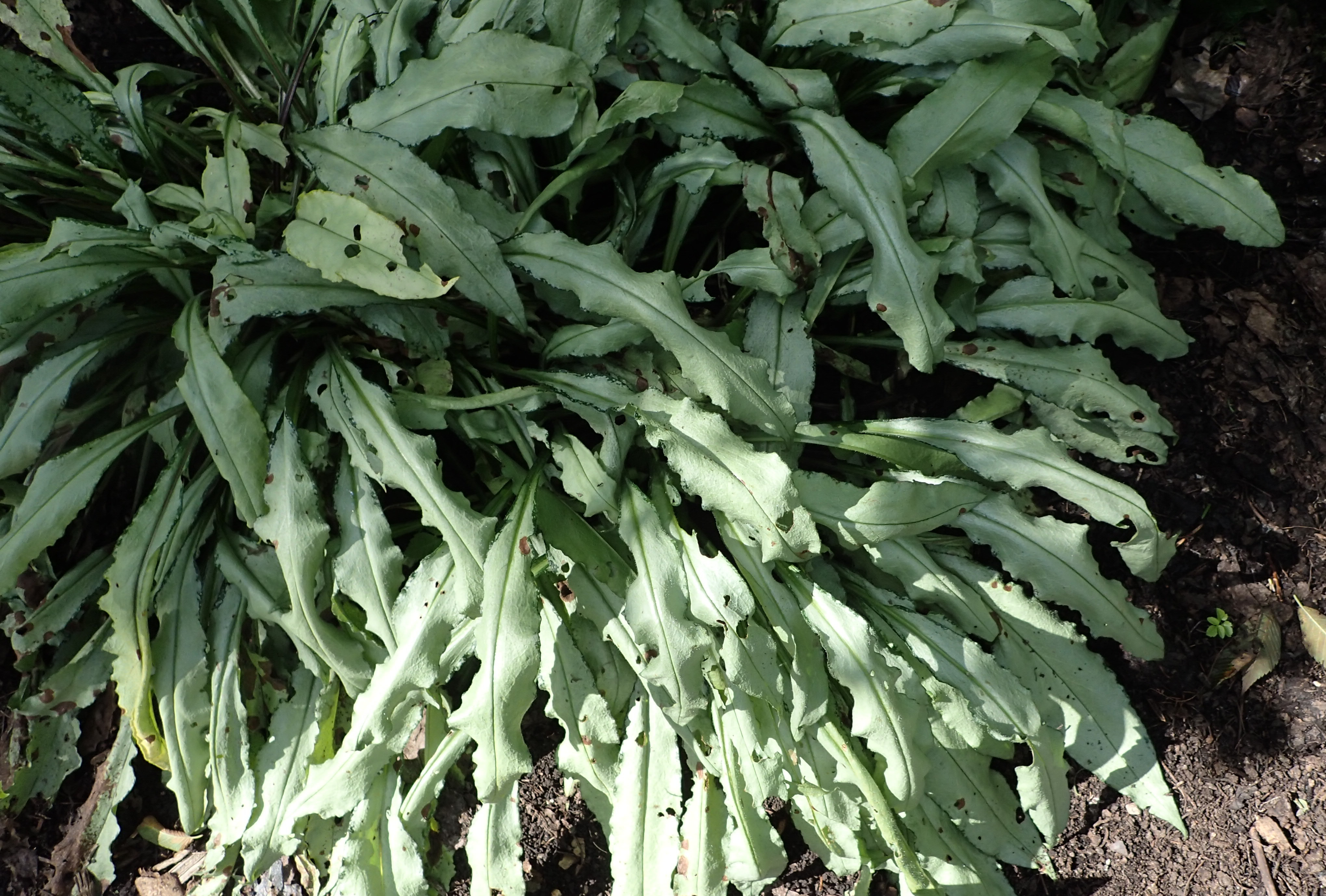 Pulmonaria longifolia 'Diana Clare' in Olbrich Botanical Gardens, Madison